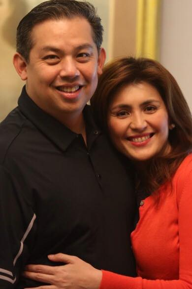 Congressman Martin Romualdez and Mrs. Yedda Marie Kittilstvedt-Romualdez